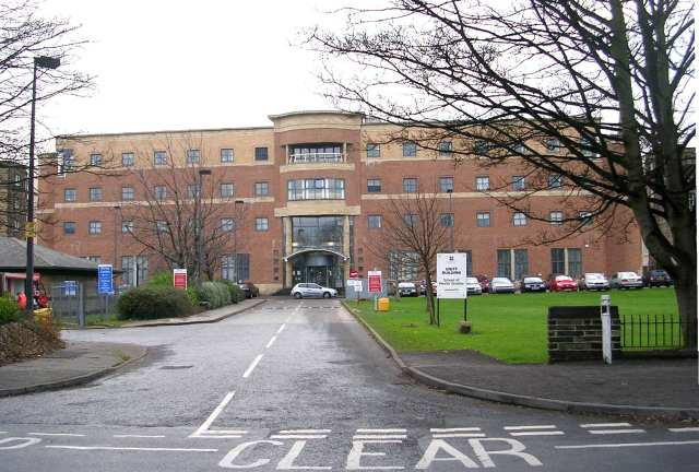 Unity Building - University of Bradford School of Health Studies - Trinity Road